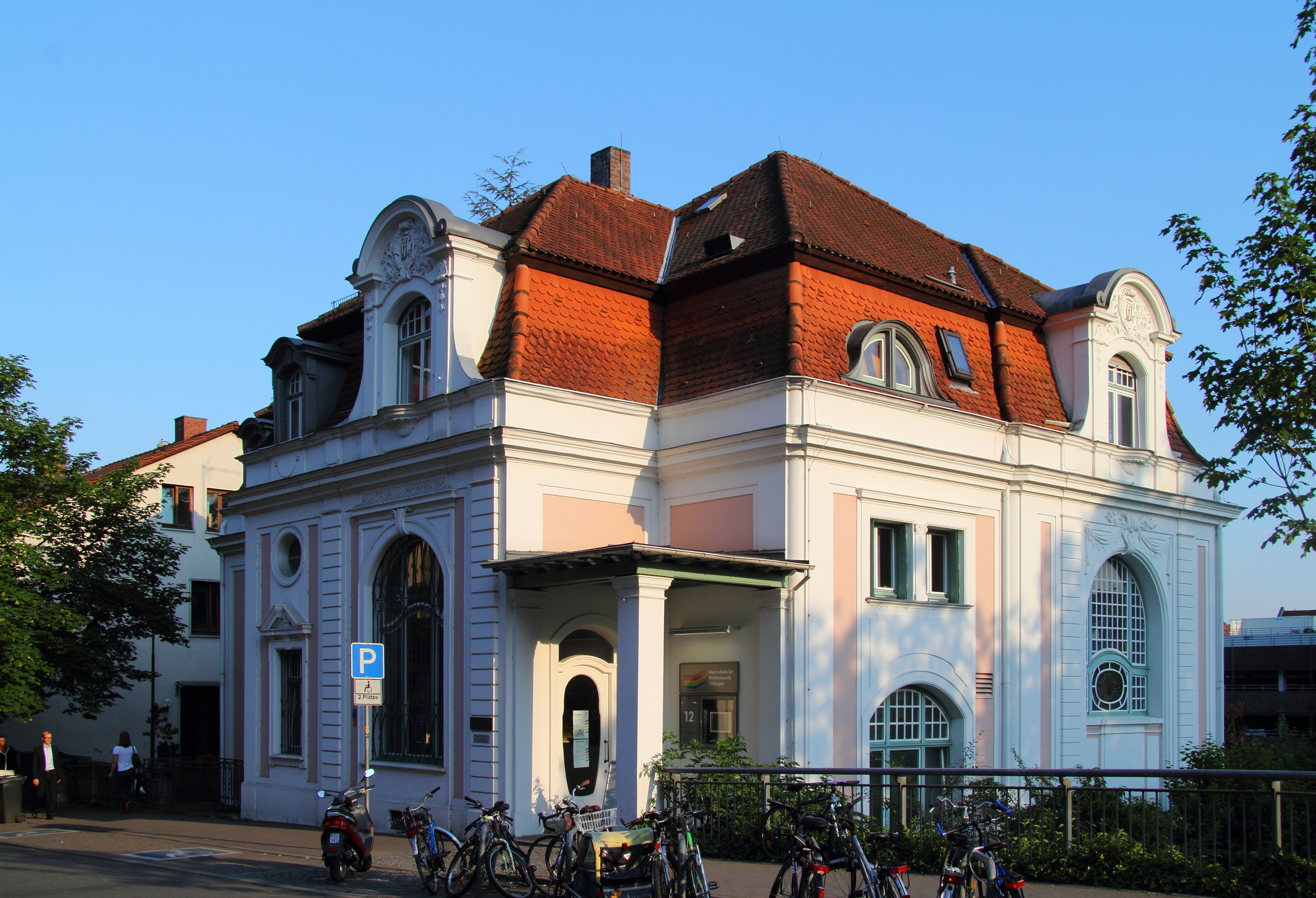 Former house of student fraternity Corps Suevia Tübingen, Gartenstrasse 12, Tübingen